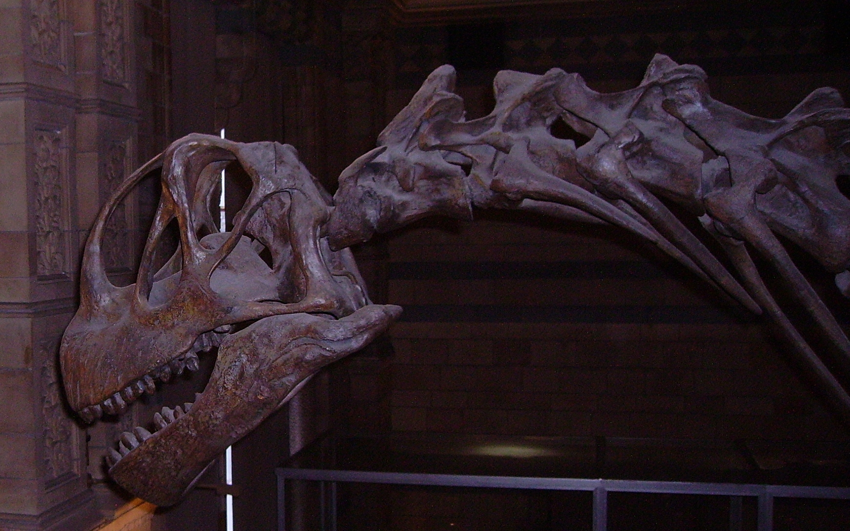 Photographer: User:Ballista